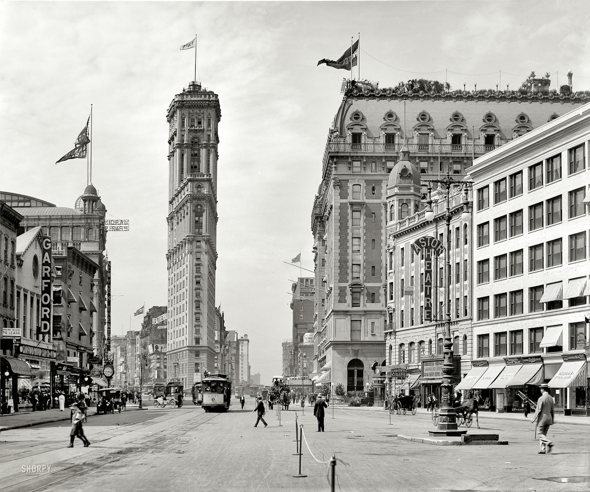 Times square at the beginning of XX century.